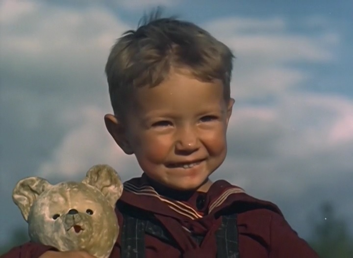 Film still from You, Moscow! (1947)